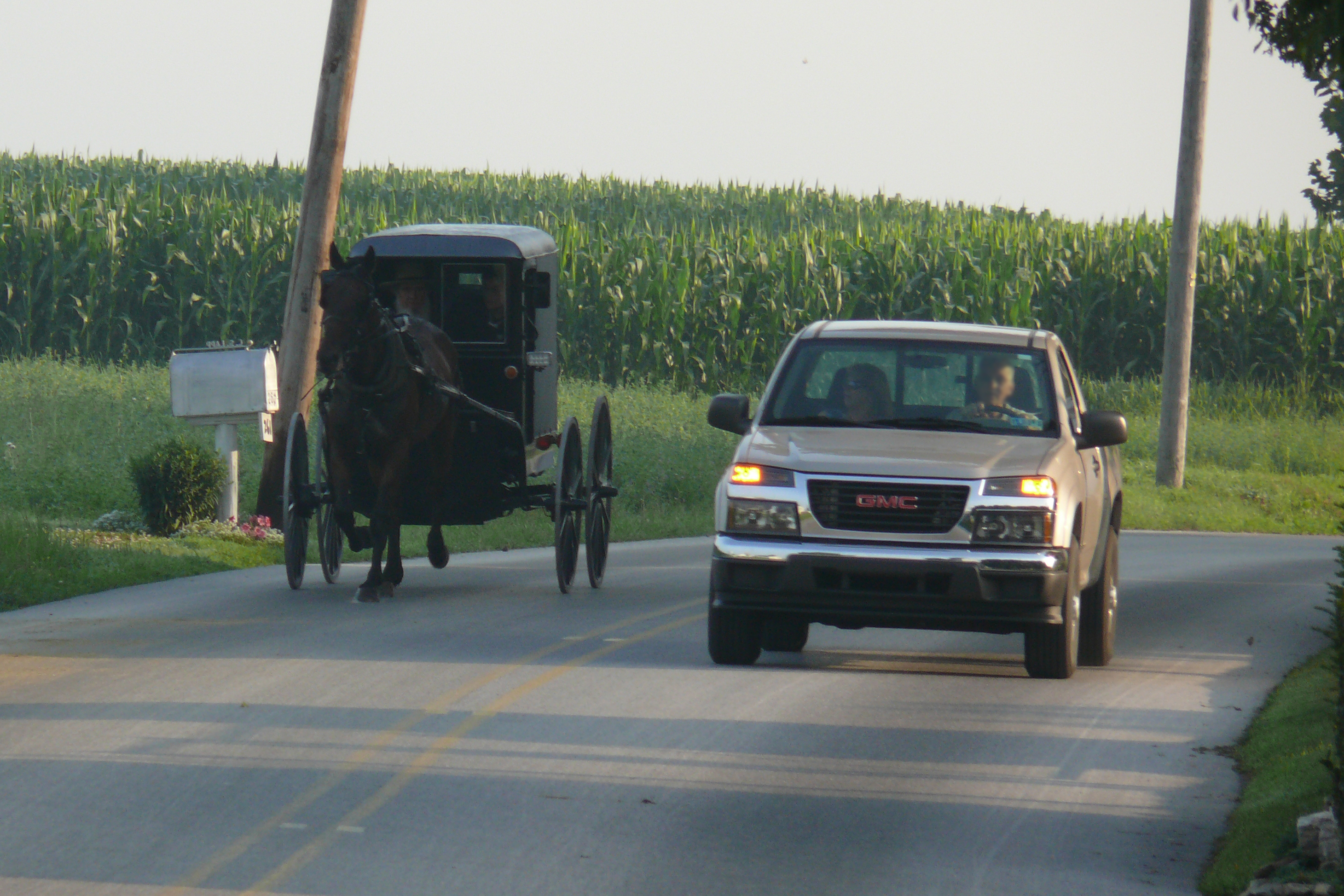 Amish buggy on a road in Lancaster County, Pennsylvania